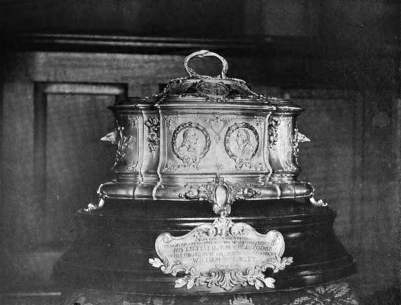 Casket in which the first Lafayette dollar (struck 1899) was presented to the President of the French Republic.